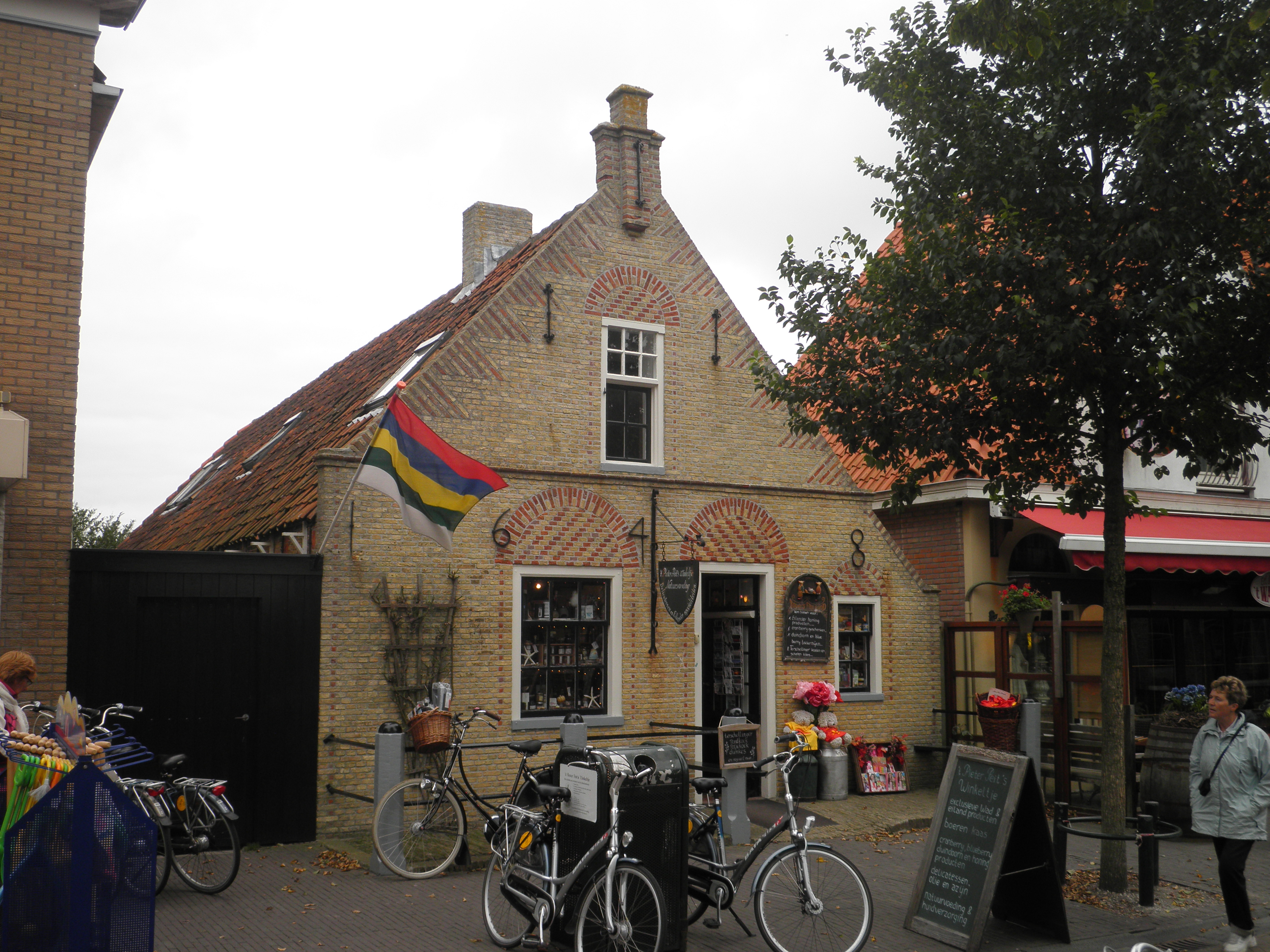 Small building at Oosterburen 23 in Midsland on the island of Terschelling in the Netherlands with yellow brick gable with red closures and arches over the windows. Front yard with porch poles. Wall anchors forming 1648.